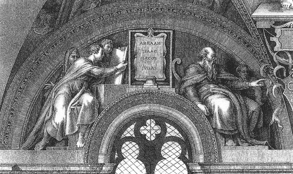 from